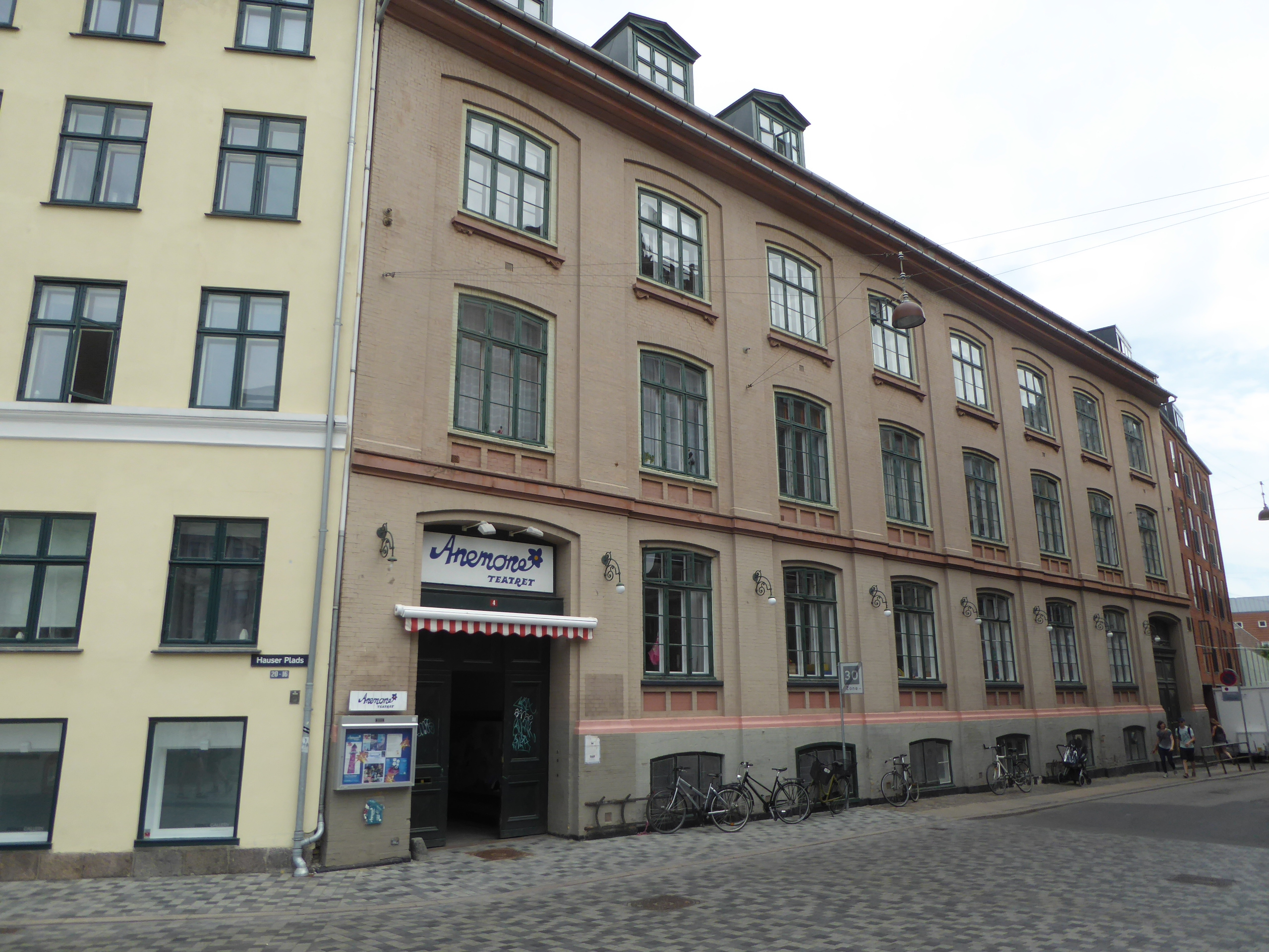 The theater Anemone Teatret at Suhmsgade in Indre By in Copenhagen.